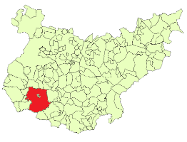 Localización de Jerez de los Caballeros en la provincia de Badajoz